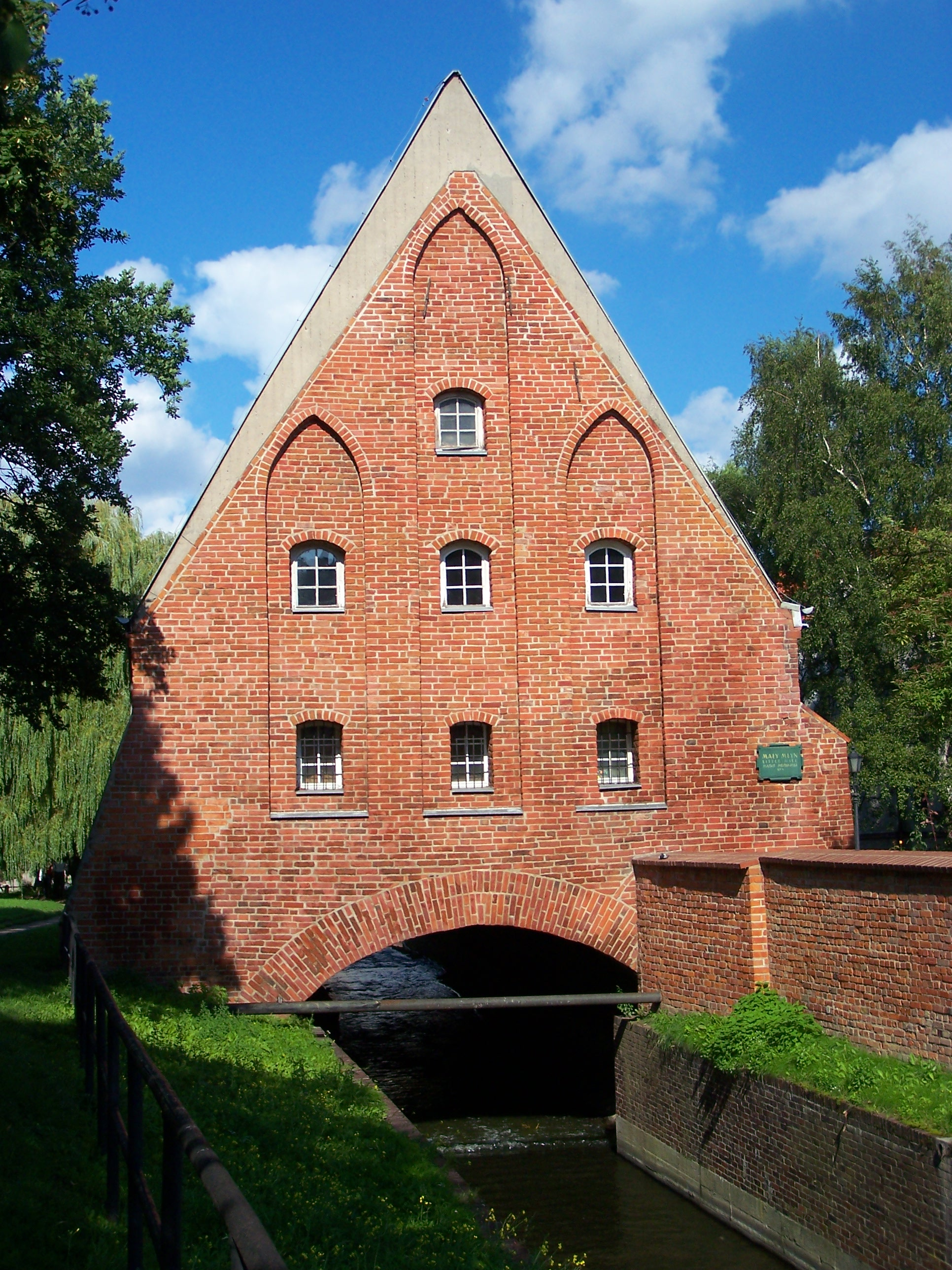 Small Mill in Gdańsk (Poland).